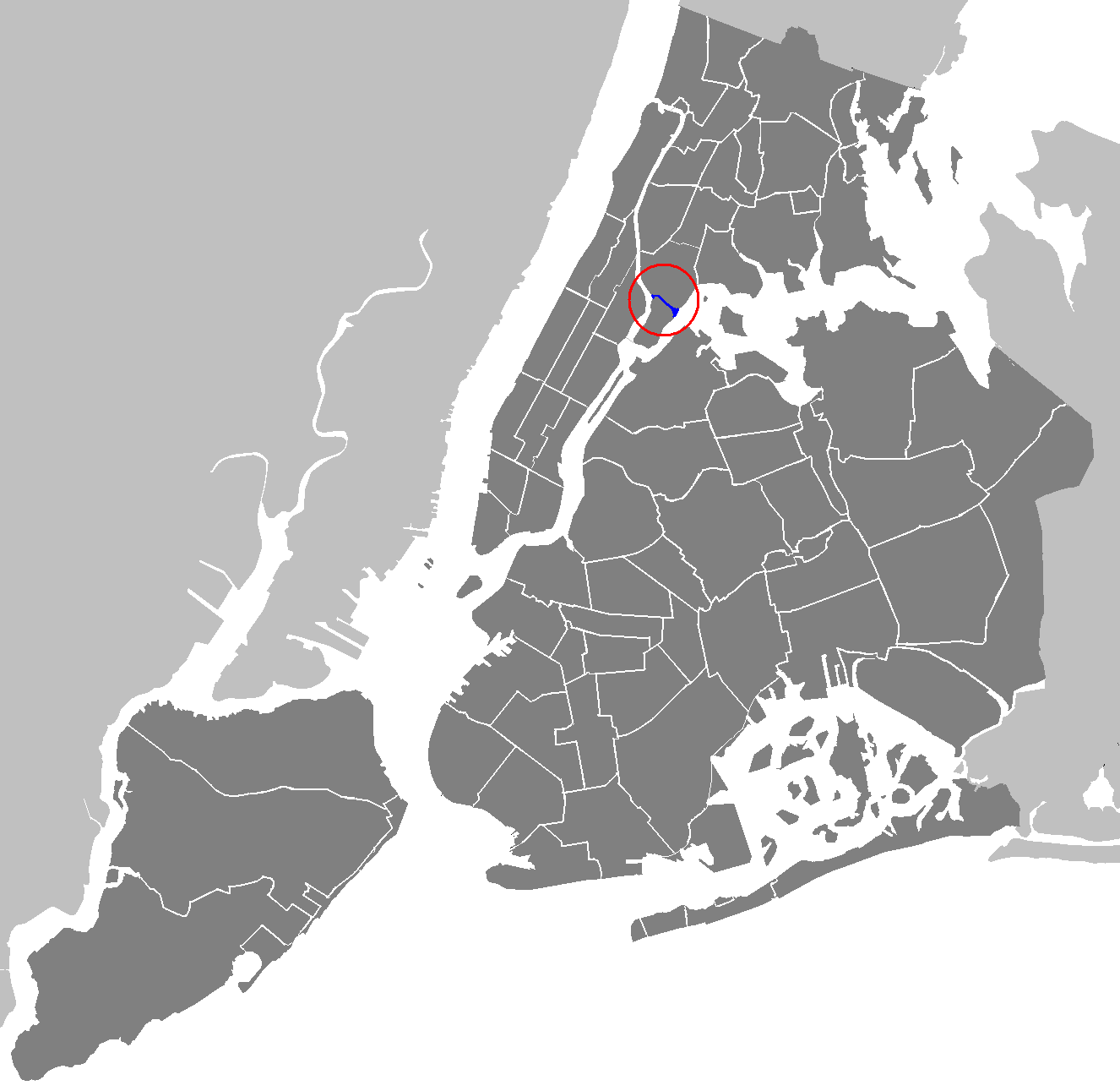 Maps of New York City: New York City - Manhattan